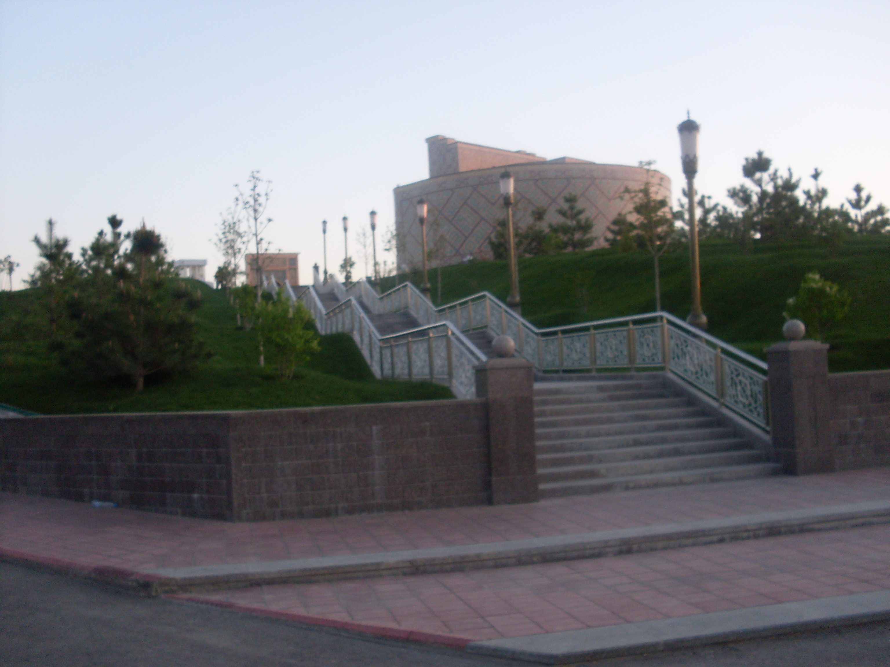 Observatie Ulugbek Museum - Обсерватория Улугбека музей